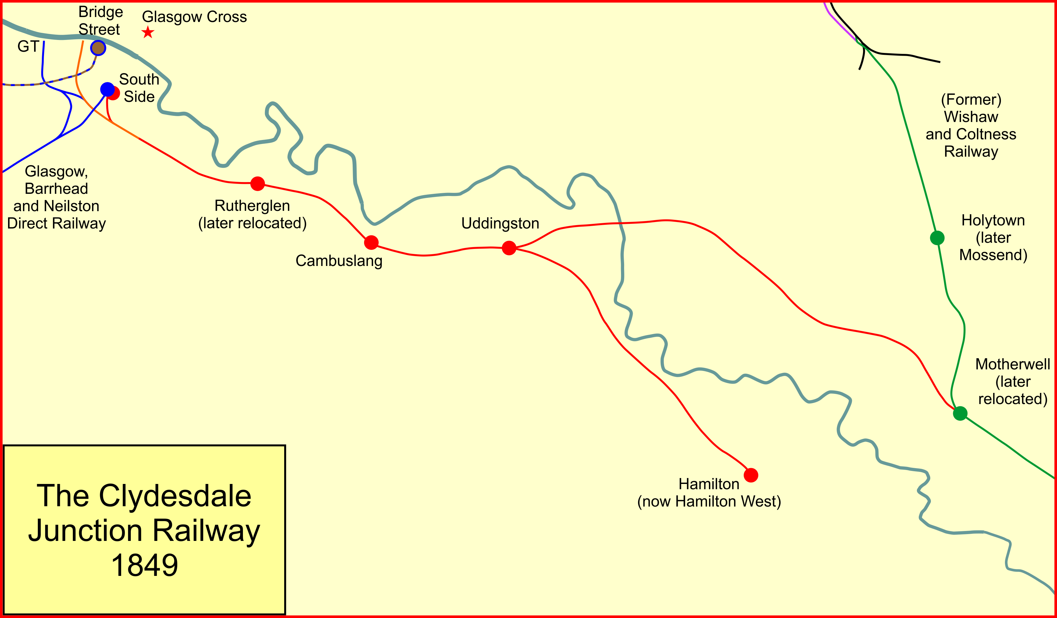 System map of the Clydesdale Junction Railway, Scotland, 1849